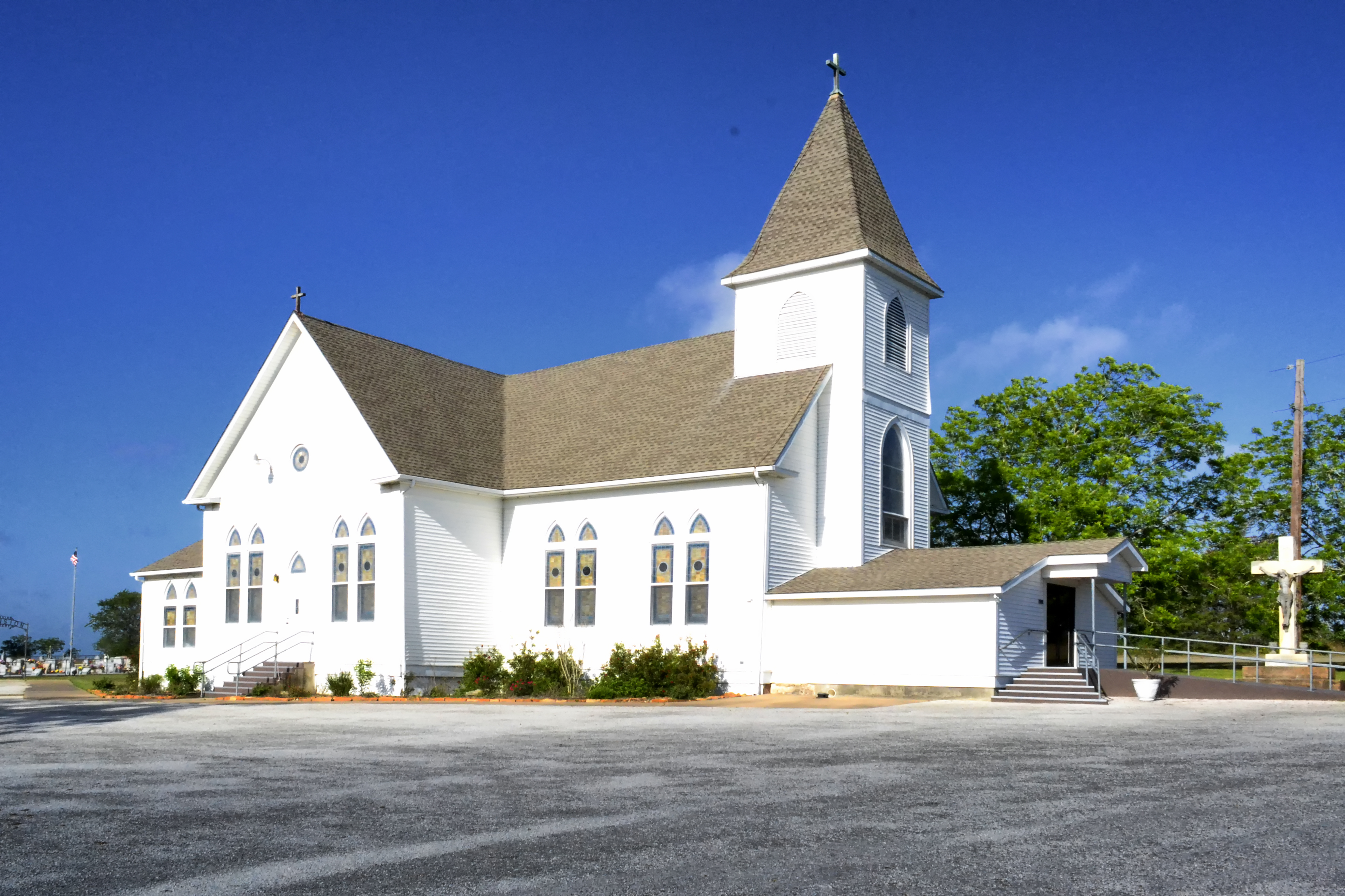 The Ascension of our Lord Catholic Church in Moravia, Texas. Listed on the National Register of Historic Places.